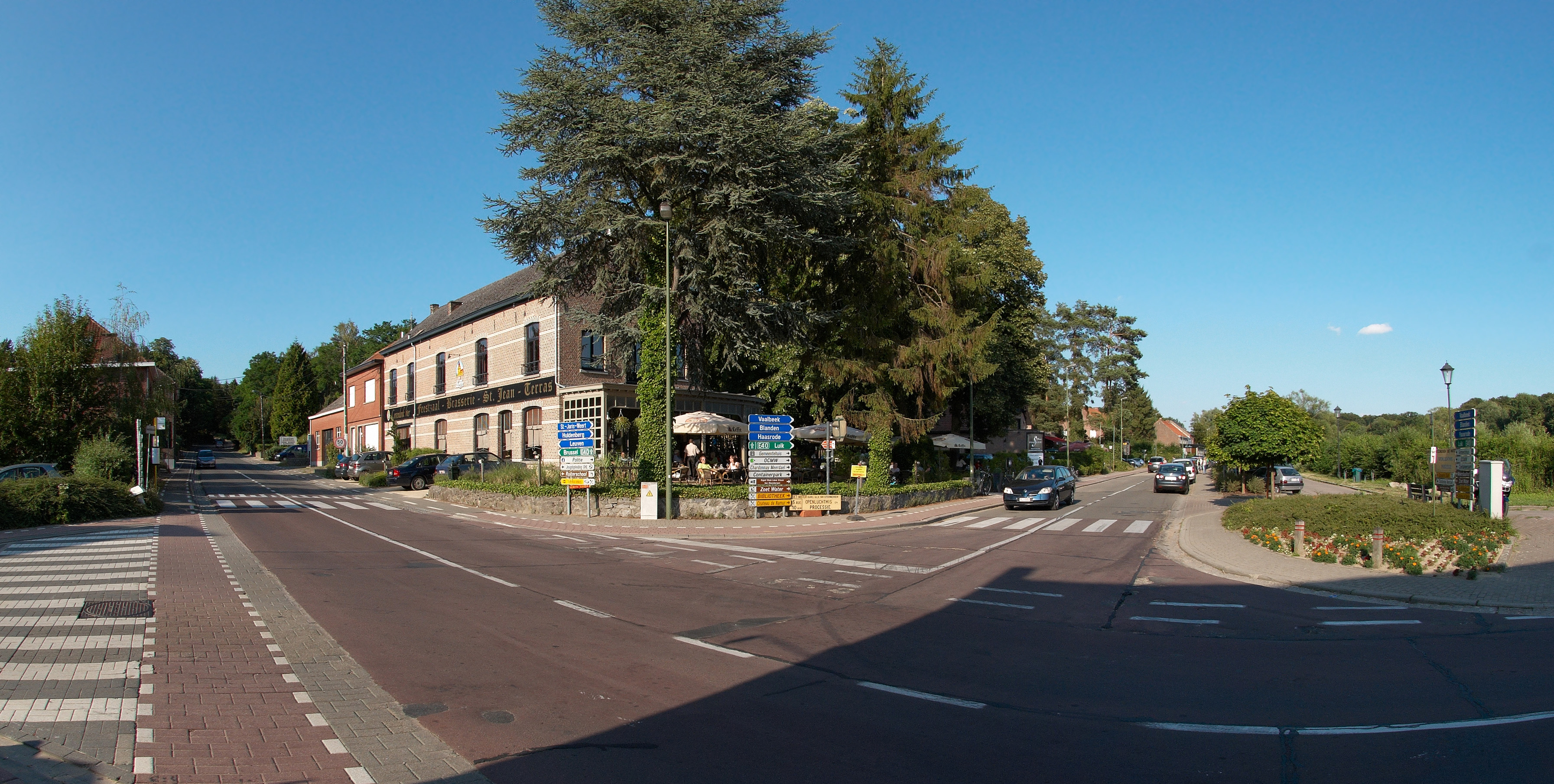 Brasserie St. Jean at the crossing Waversebaan and Maurits Noëstraat, Oud-Heverlee, Belgium